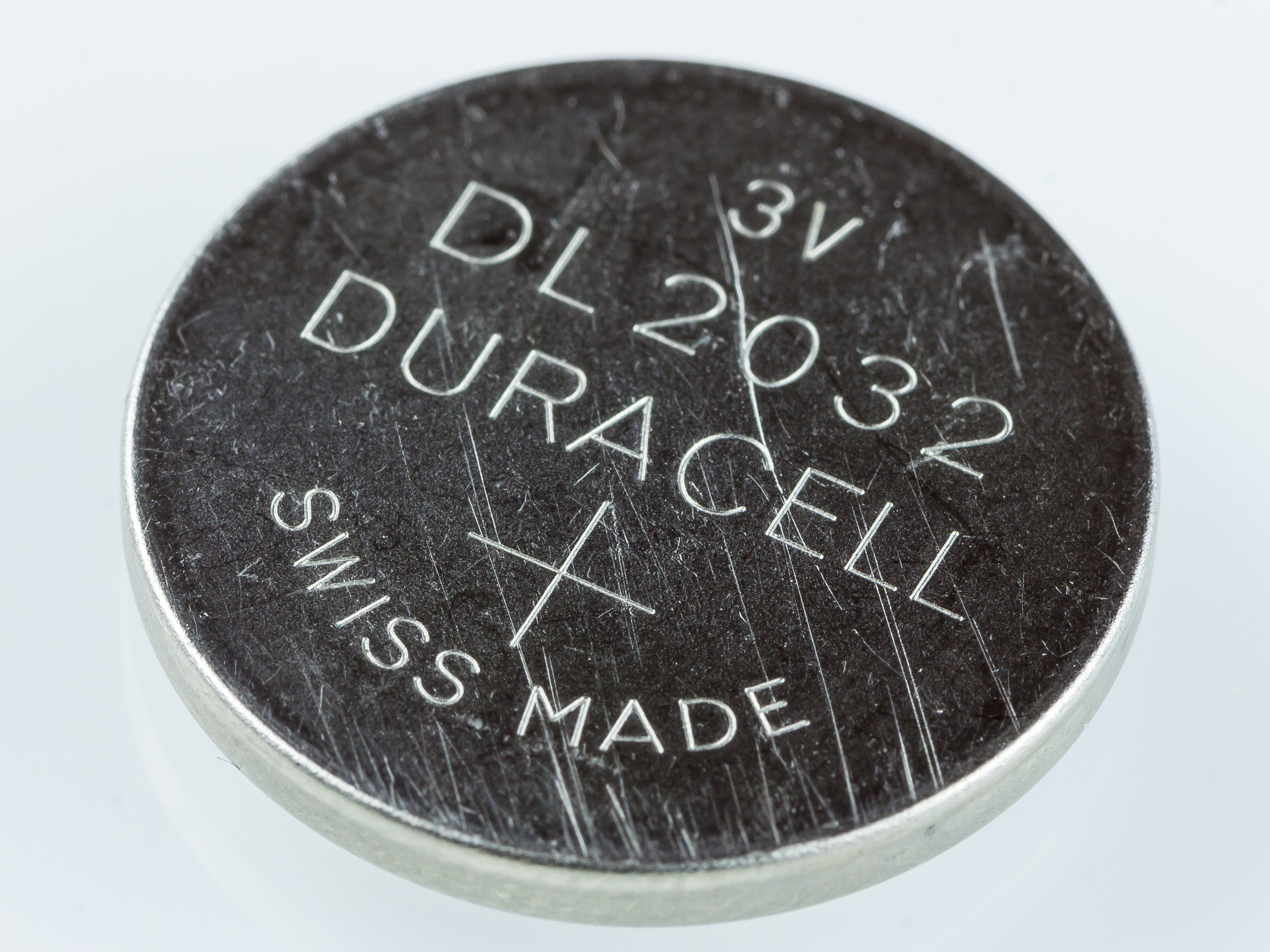 Duracell DL2032 Coin cell